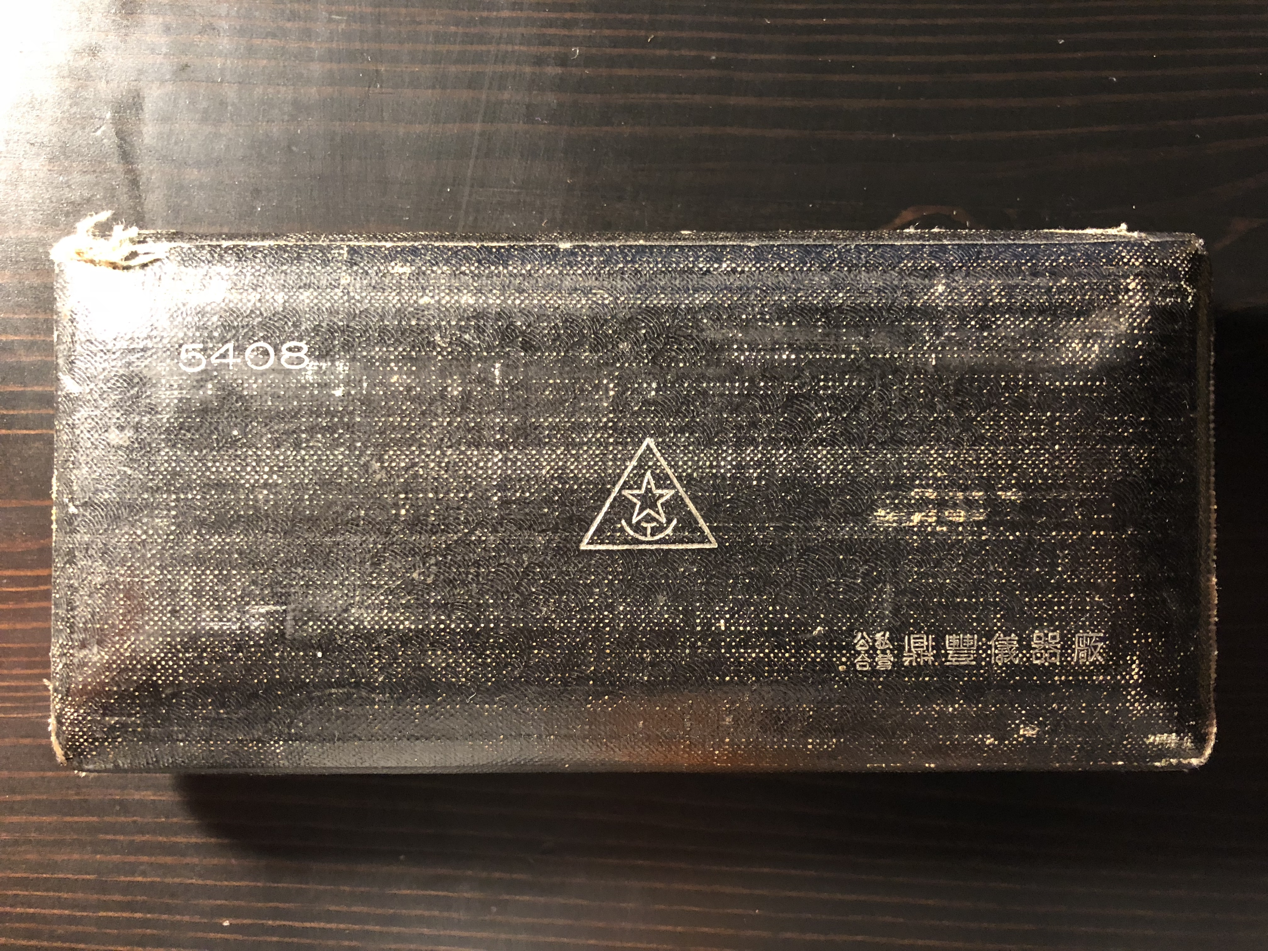 鼎丰仪器厂5408型圆规套件